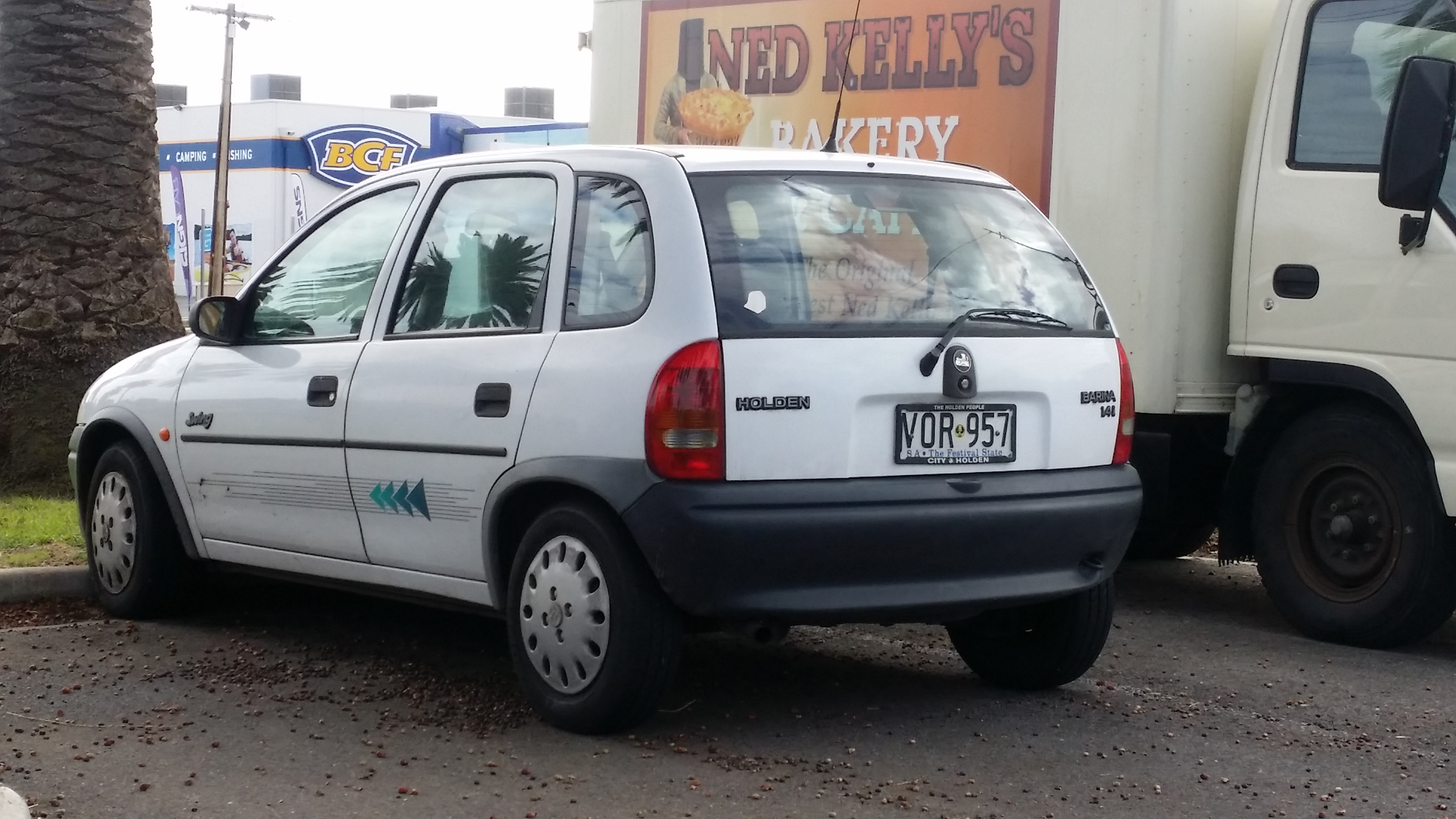 I still remember when these first came out, I was so happy that Holden had finally decided to go with an actual GM small car for it's Barina, instead of being a rebadged Suzuki Swift, which had been the case for so many years before this. Early models that arrived in Australia, still had the Opel badge on the engine cover and the steering wheel! And if you manage to pop the centre piece/cap off these wheel trims, the ones pictured, there is a Vauxhall badge underneath them!